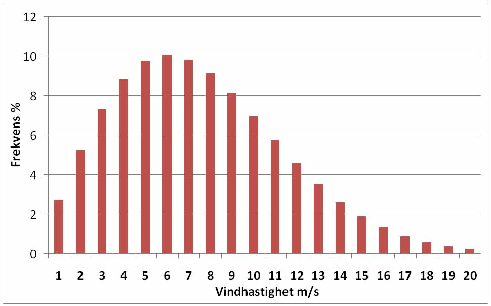 Diagram of frequencies in 1 m/s interval of a 7,5 m/s mean wind